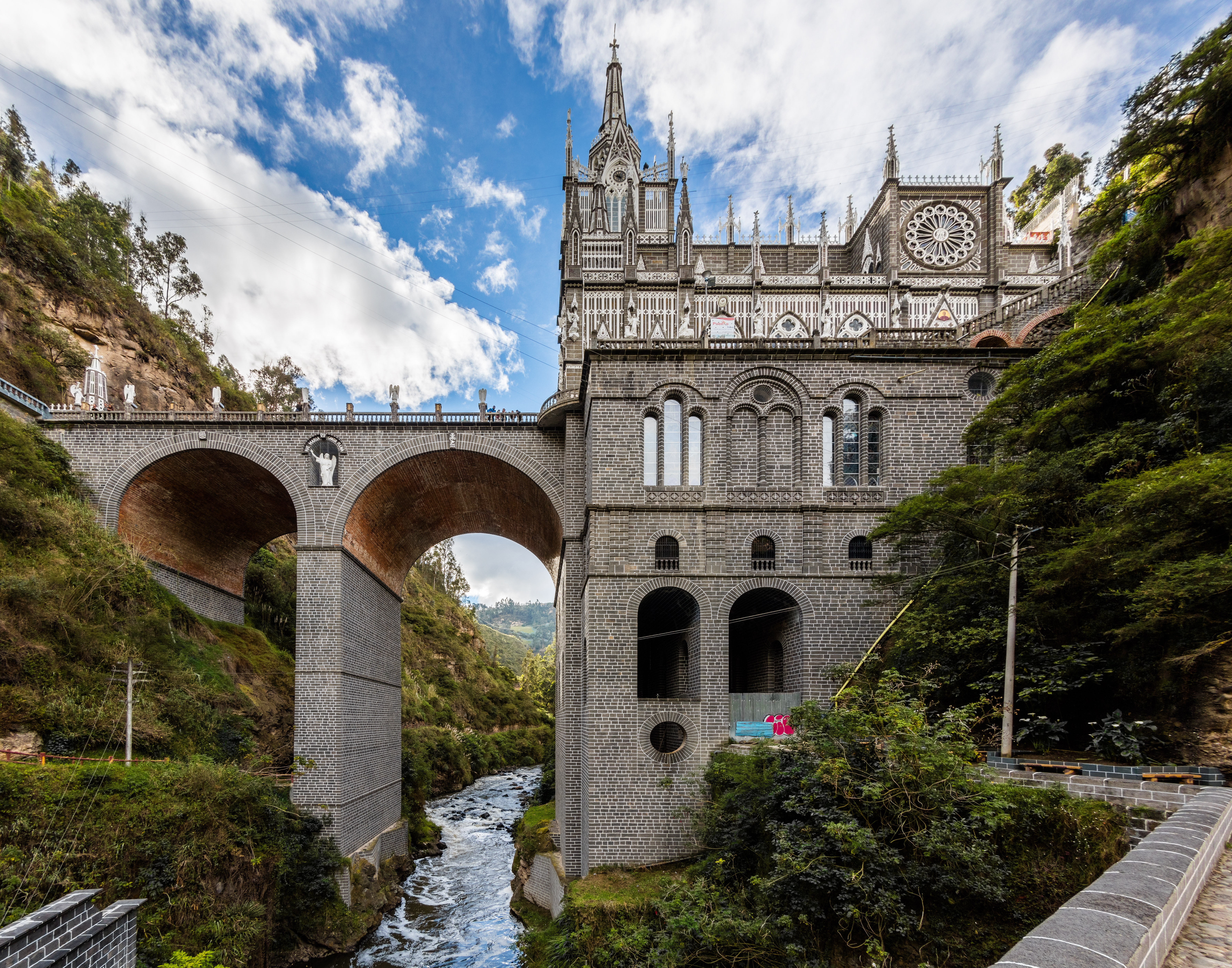 Sanctuary of Las Lajas, Ipiales, Colombia